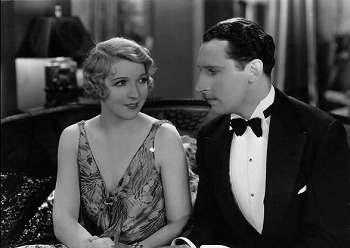 Ina Claire and Henry Daniell in a scene from The Awful Truth (1929).